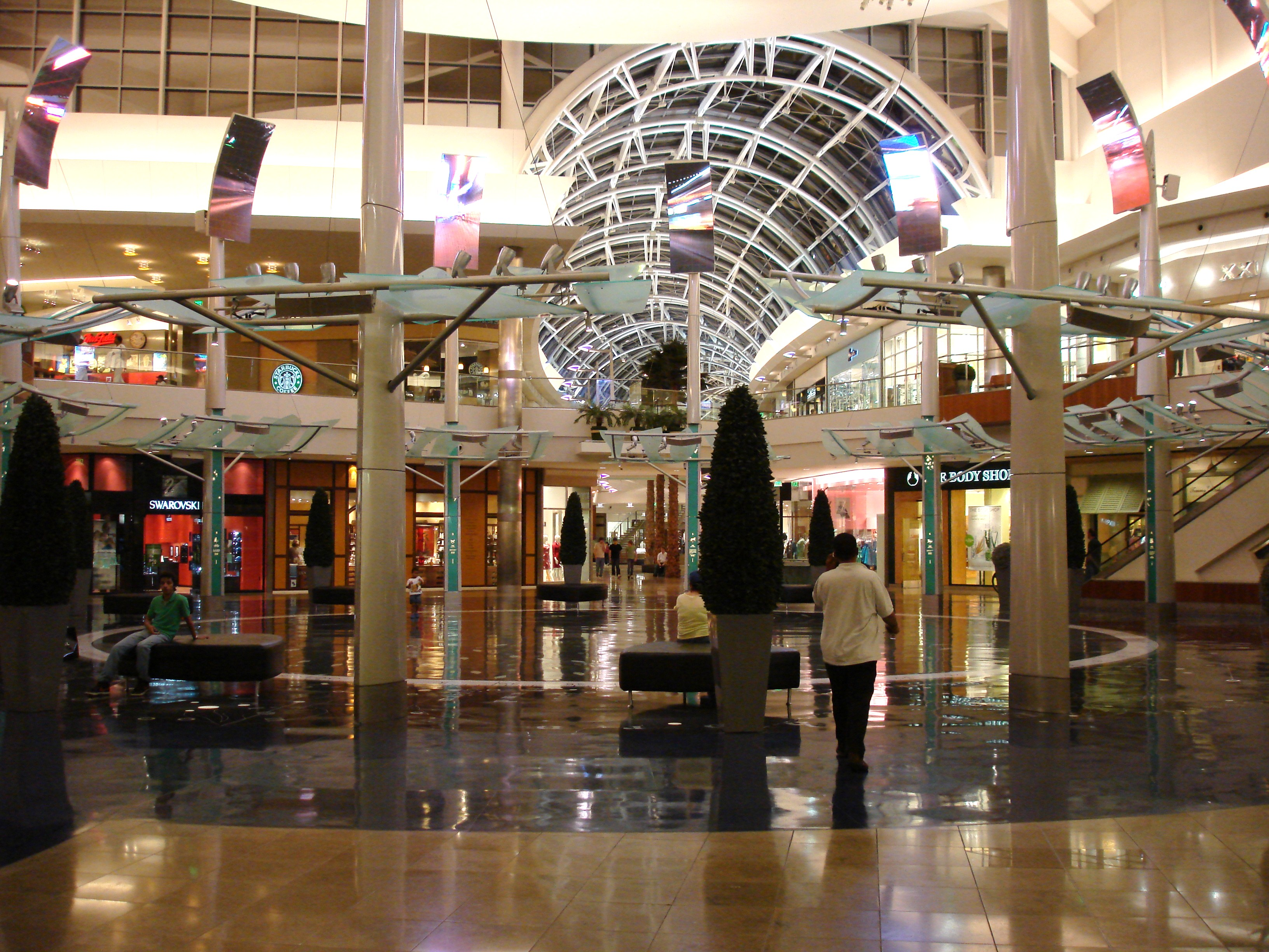 The Mall at Meillenia, Orlando, Fl.